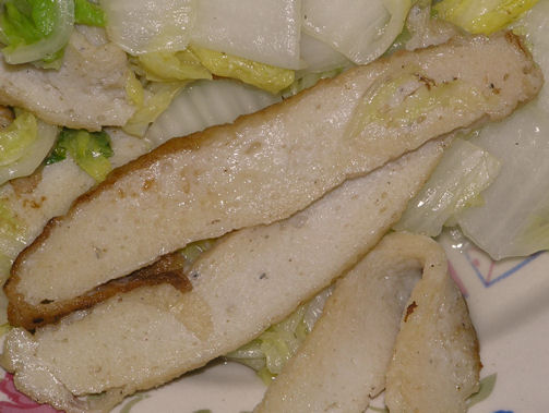 Fish slice fish fillet